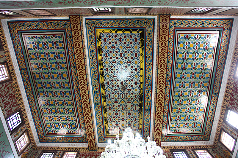 Dome of the el-Farshuti Mosque, Sohag, Egypt